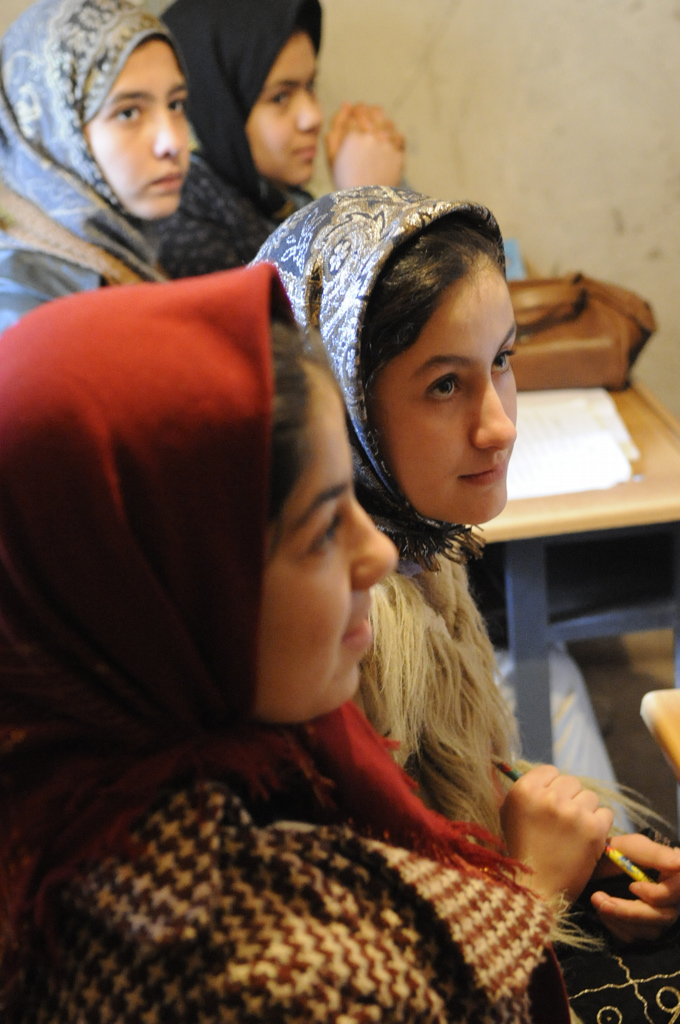 HERAT, Afghanistan-Students at a local children’s school listen to members from RC-West who delivered supplies to the downtown Herat school. The supplies were donated by the Rotary Club of Udine, Italy and included notebooks, pens, pencils and paper for the 500 students studying at the school.